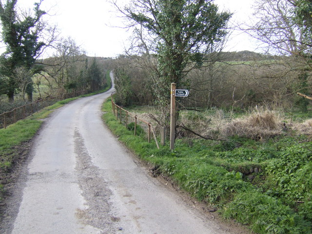 Lane from Trerise to Tresaddern The footpath crossing the lane here is a newly designated 'Gold'status set by Cornwall County Council to encourage walking on the inland paths, not just the coastal ones.